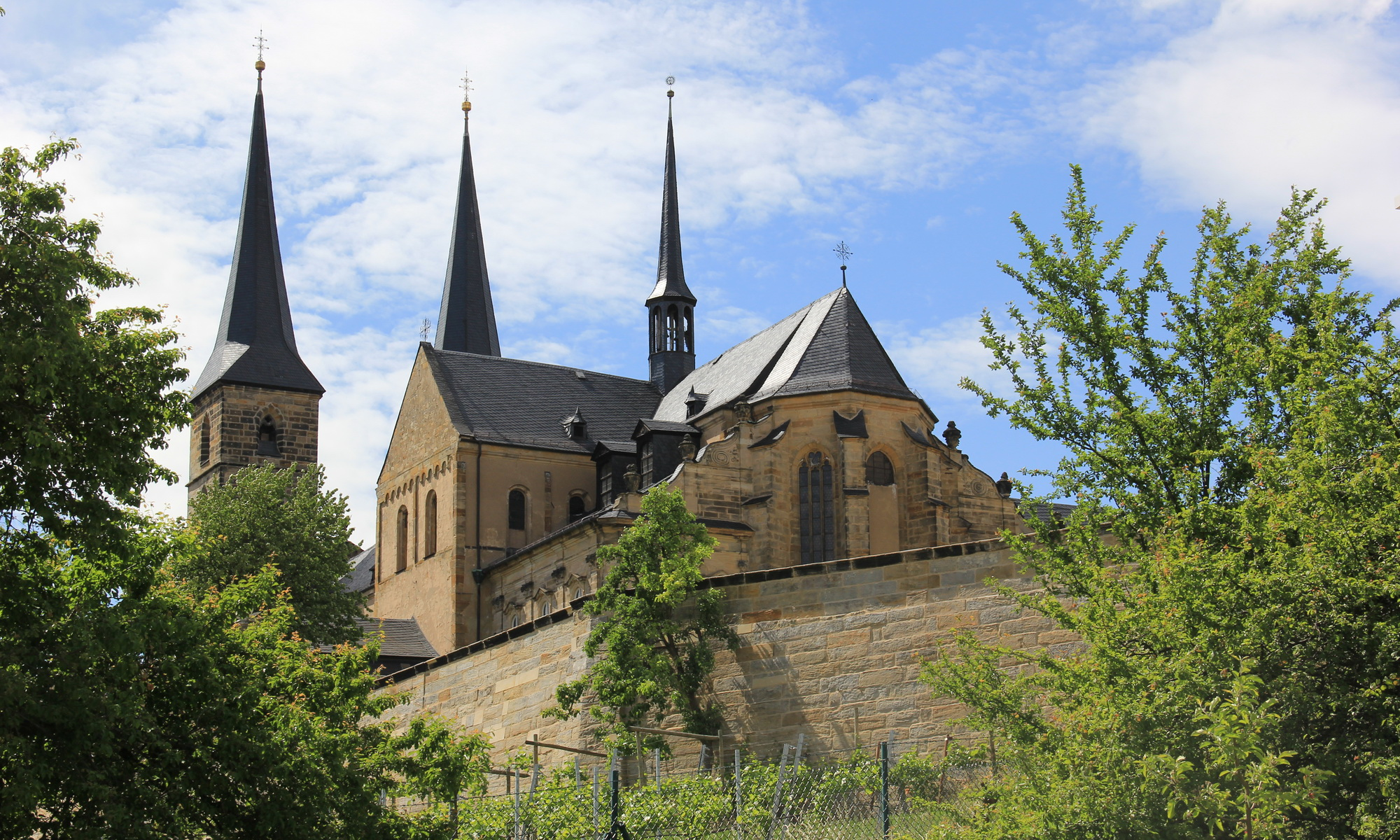 Michaelsberg Abbey Native nameKloster MichelsbergLocationBamberg, eee, GermanyCoordinates49° 53′ 37″ N, 10° 52′ 38″ E Established1015Authority control : Q555168 VIAF: 267690333 LCCN: nr90002797 GND: 16135818-4 WorldCat institution QS:P195,Q555168